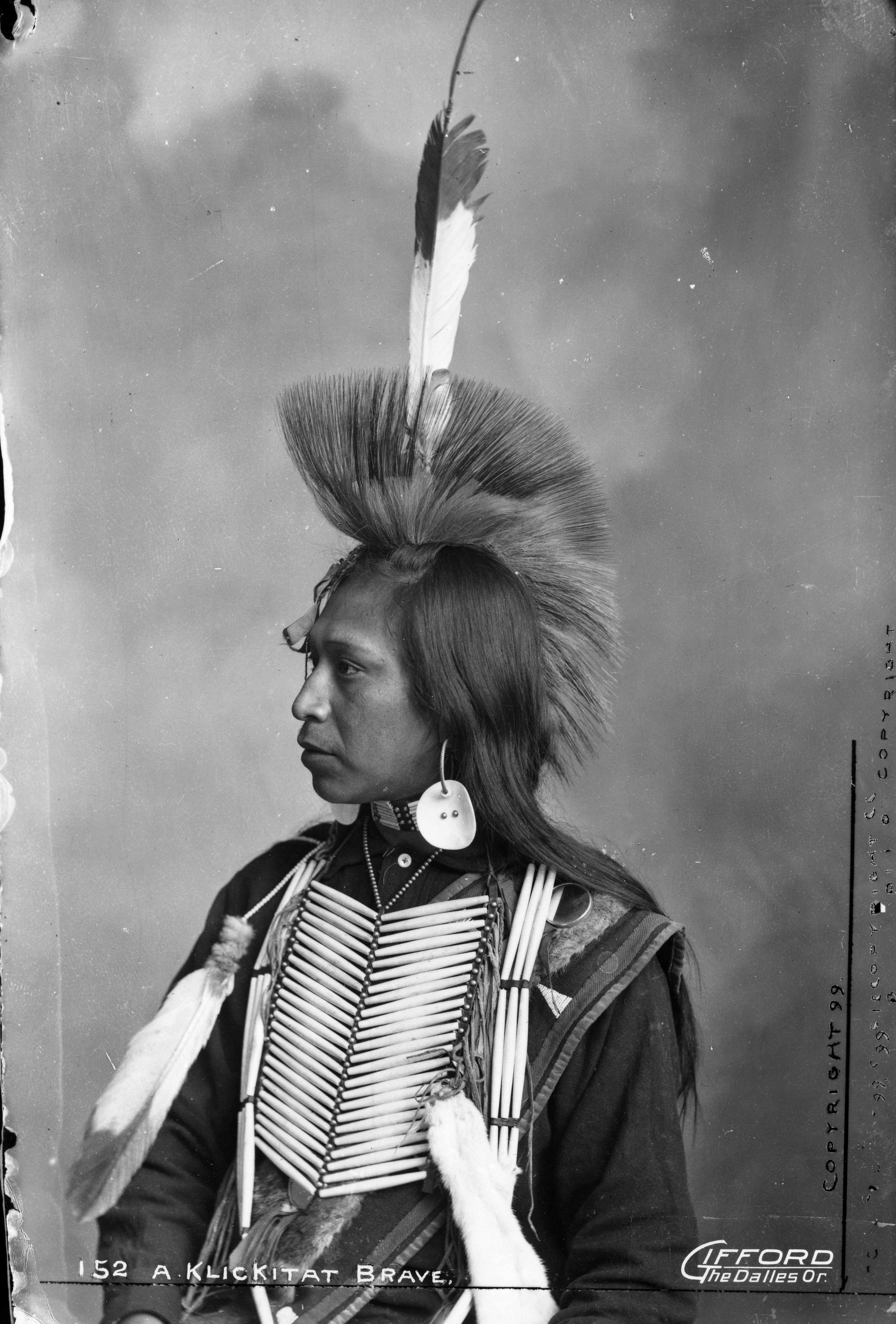 A Native American Klickitat Brave, 1899. Photographed in Gifford's The Dalles, Oregon studio. Gelatin silver print.